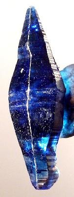 Corundum (Var.: Sapphire) Locality: Ratnapura, Ratnapura District, Sabaragamuwa Province, Sri Lanka (Locality at ) A SUPERB, gemmy, doubly terminated sapphire crystal from Ratnapura, Sri Lanka. Ex Irv Brown TN Collection. Small, yes, but gorgeous riveting color! 1.6 x 0.5 x 0.4 cm